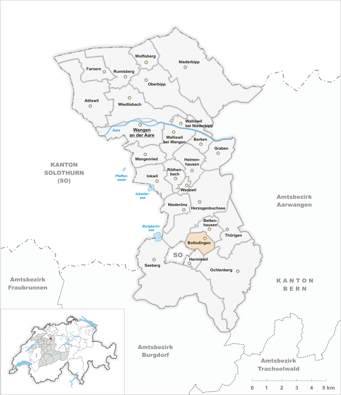 Municipality Bollodingen